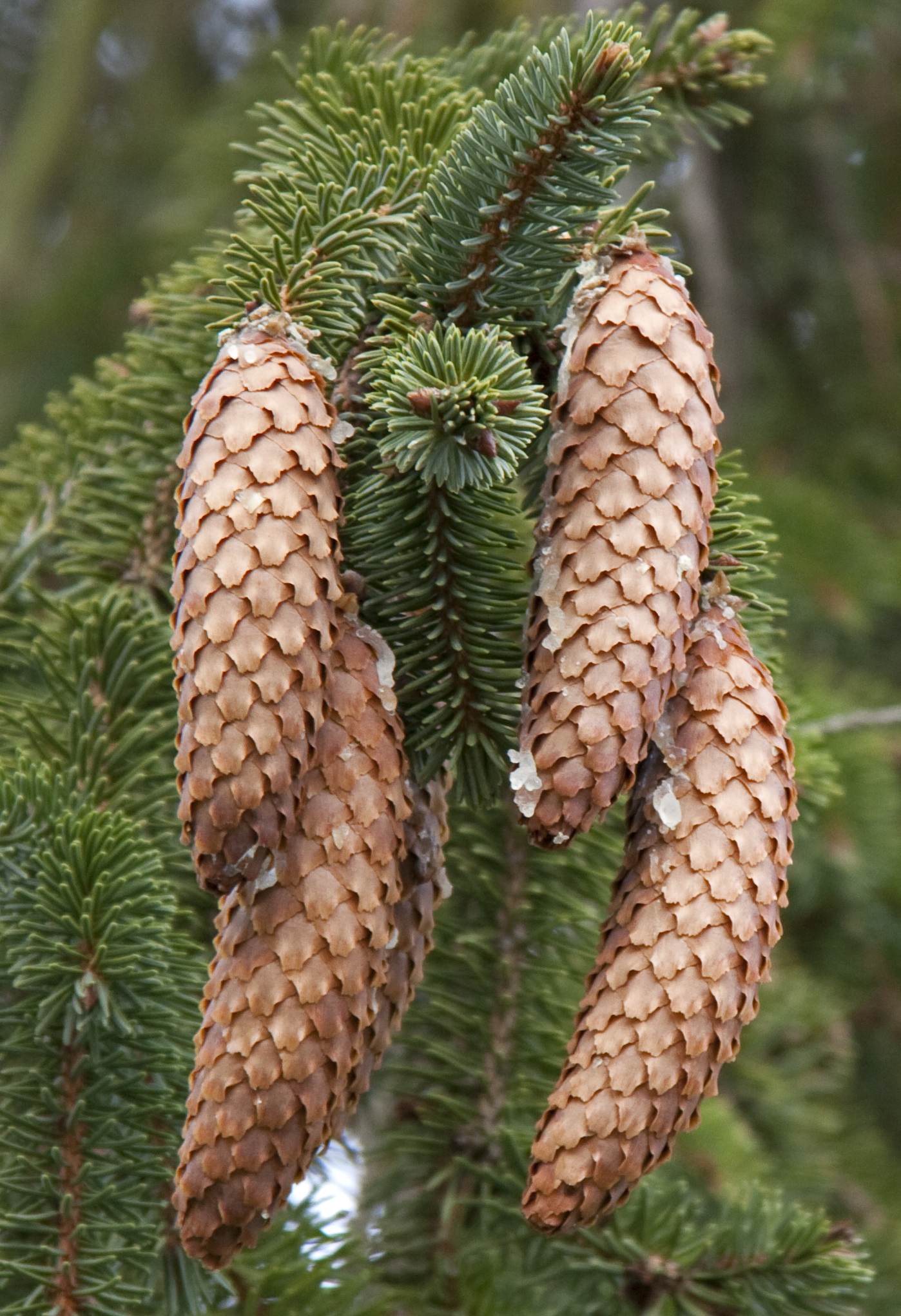 Picea abies cones. Cultivated, Hanbury Hall, England.